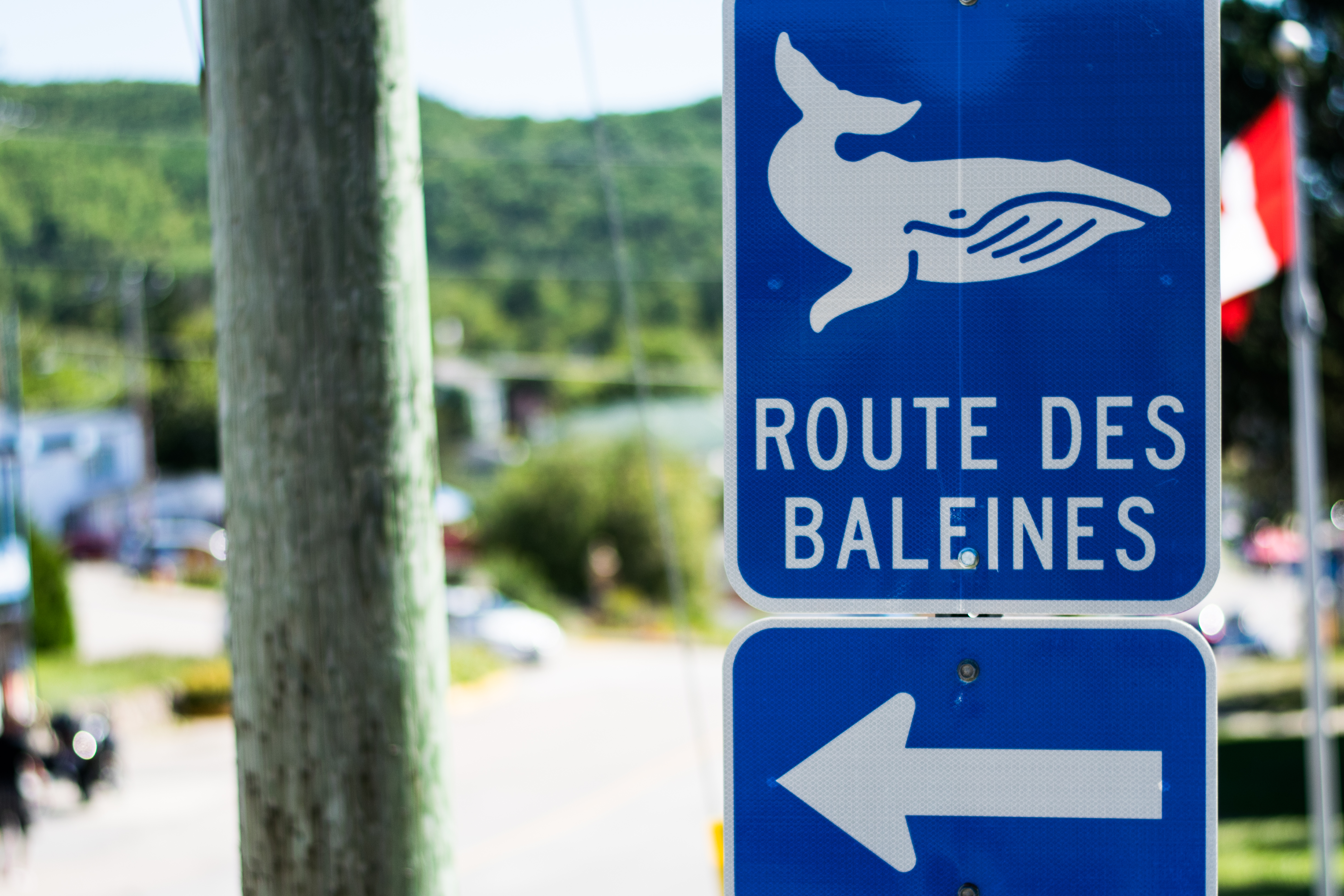 A whale road sign in the town of Tadoussac, along the Saint Lawrence River (Quebec, Canada).